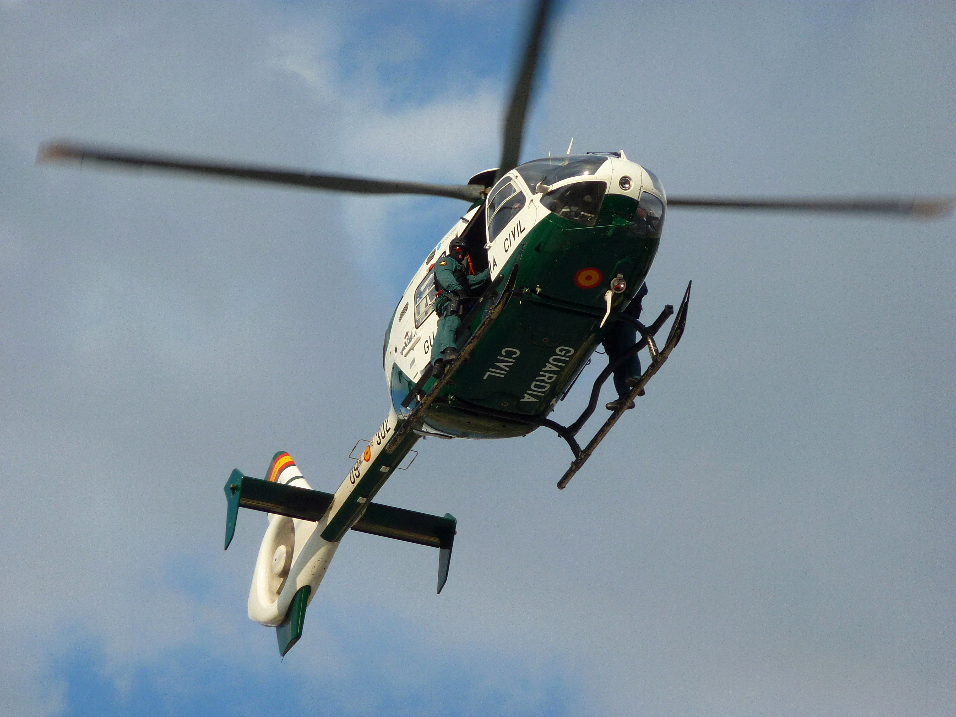 Spanish Civil Guard Eurocopter EC-135P-2 carrying members of the UEI (Special Intervention Unit).